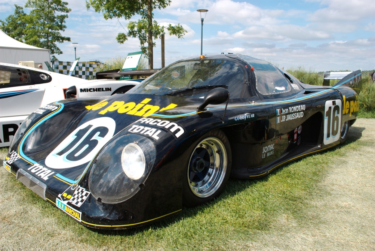 1980 Rondeau M379B (Le Mans Winner) at Le Mans Classic 2010